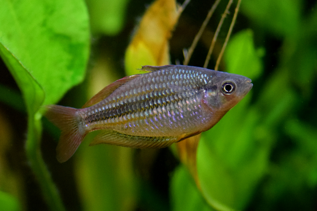 A Lake Eacham Rainbowfish, Melanotaenia eachamensis, photographed in an aquarium.